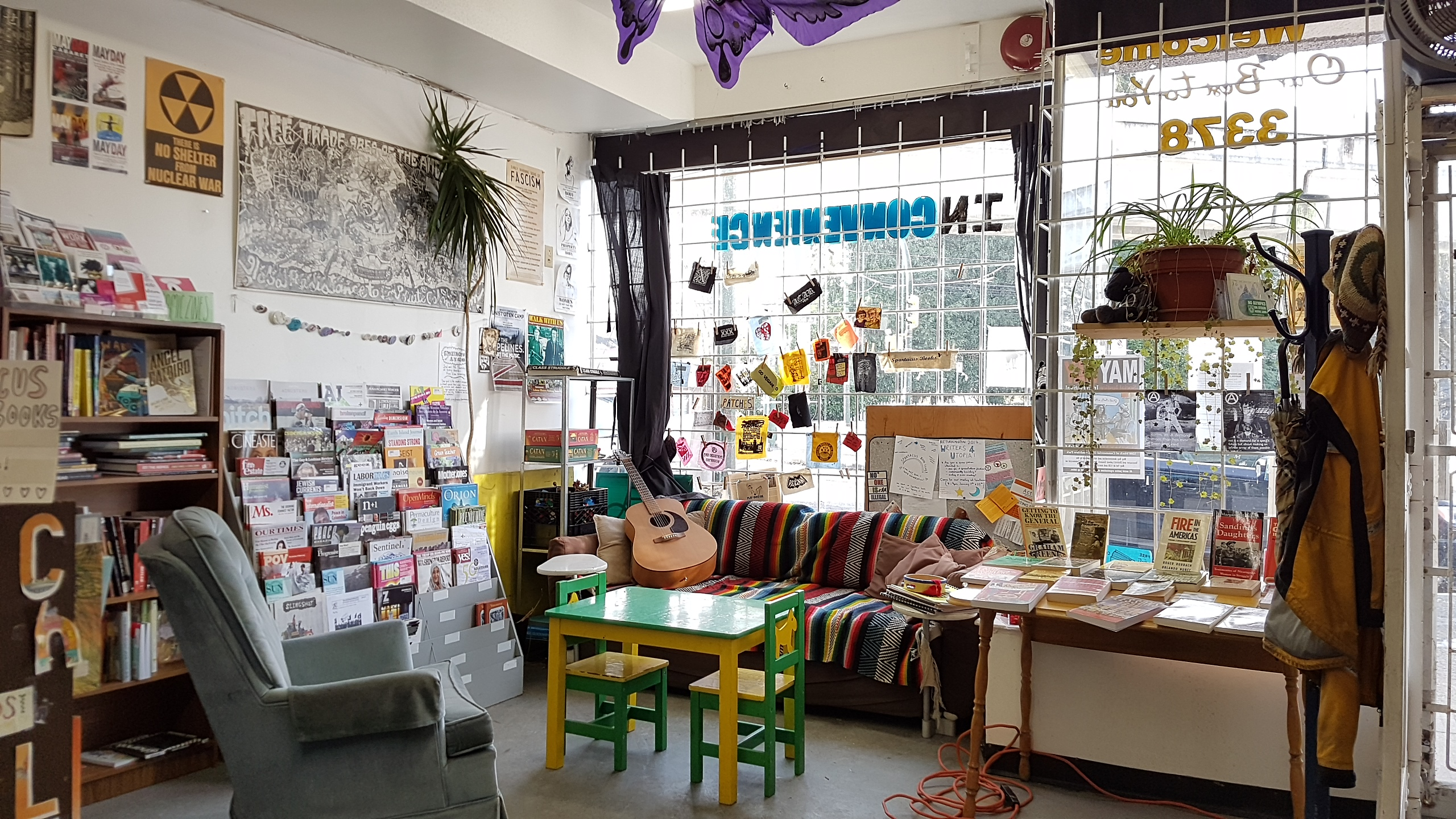 Sunlight shines through the window onto the hangout zone at Spartacus Books, which includes a couch, comfy chair, guitar, colourful magazine rack, posters, and patches.